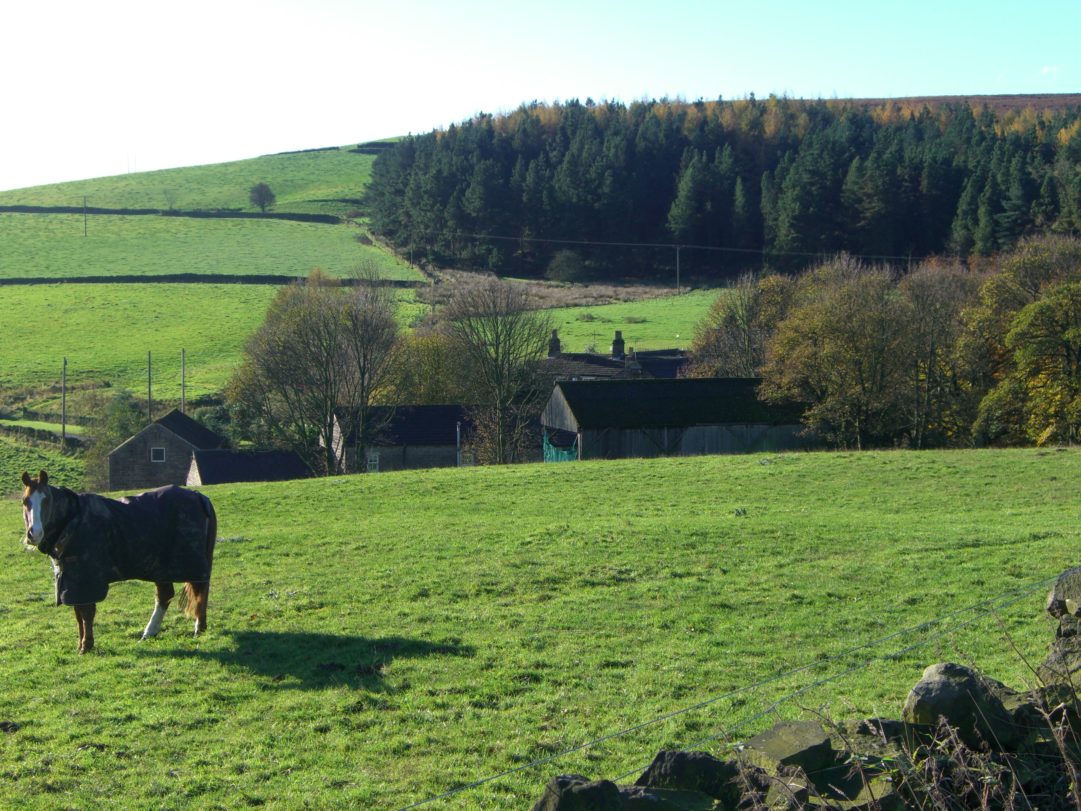 The hamlet of Load Brook in Sheffield, England.